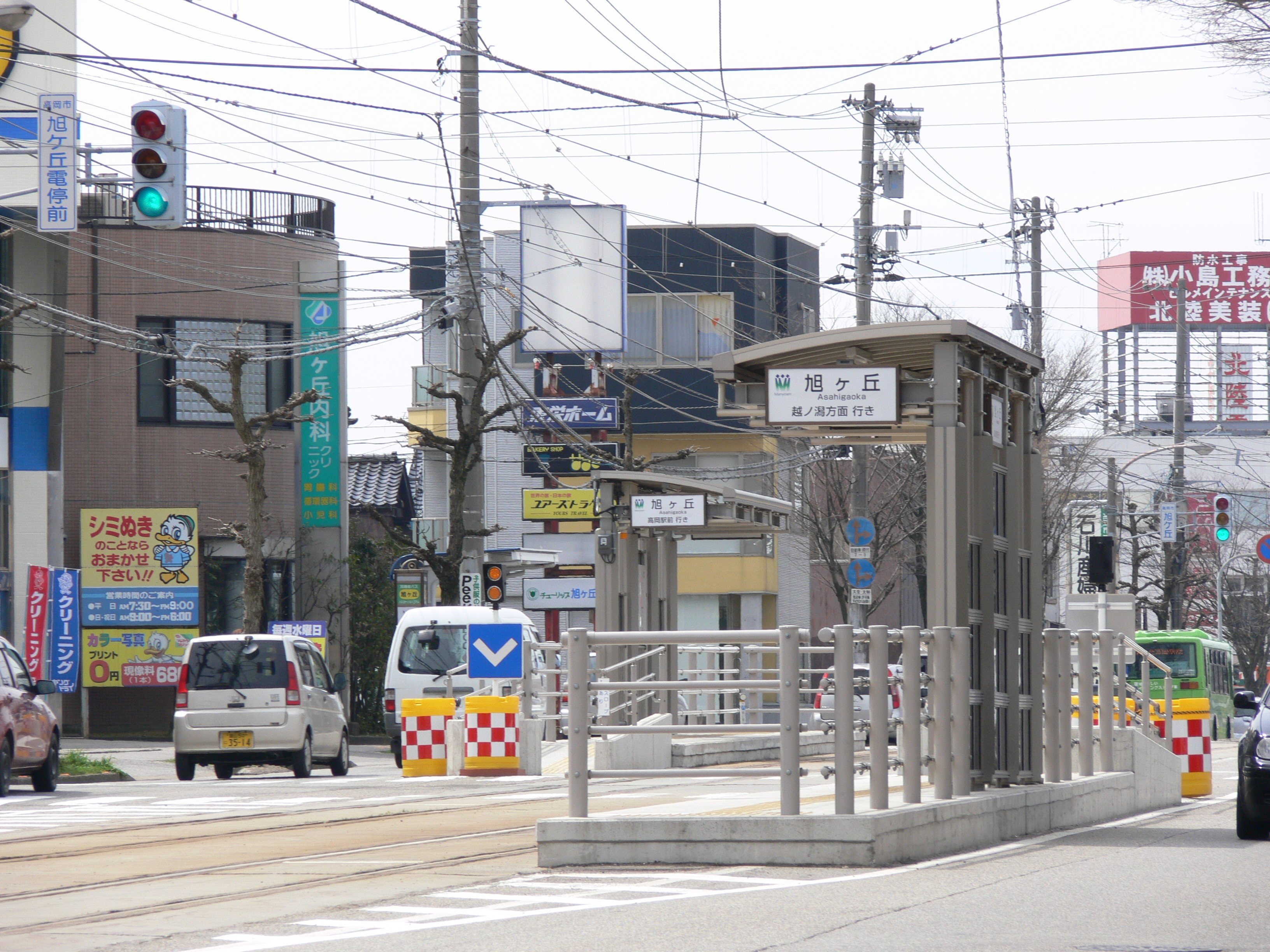 manyoline Asahigaoka station